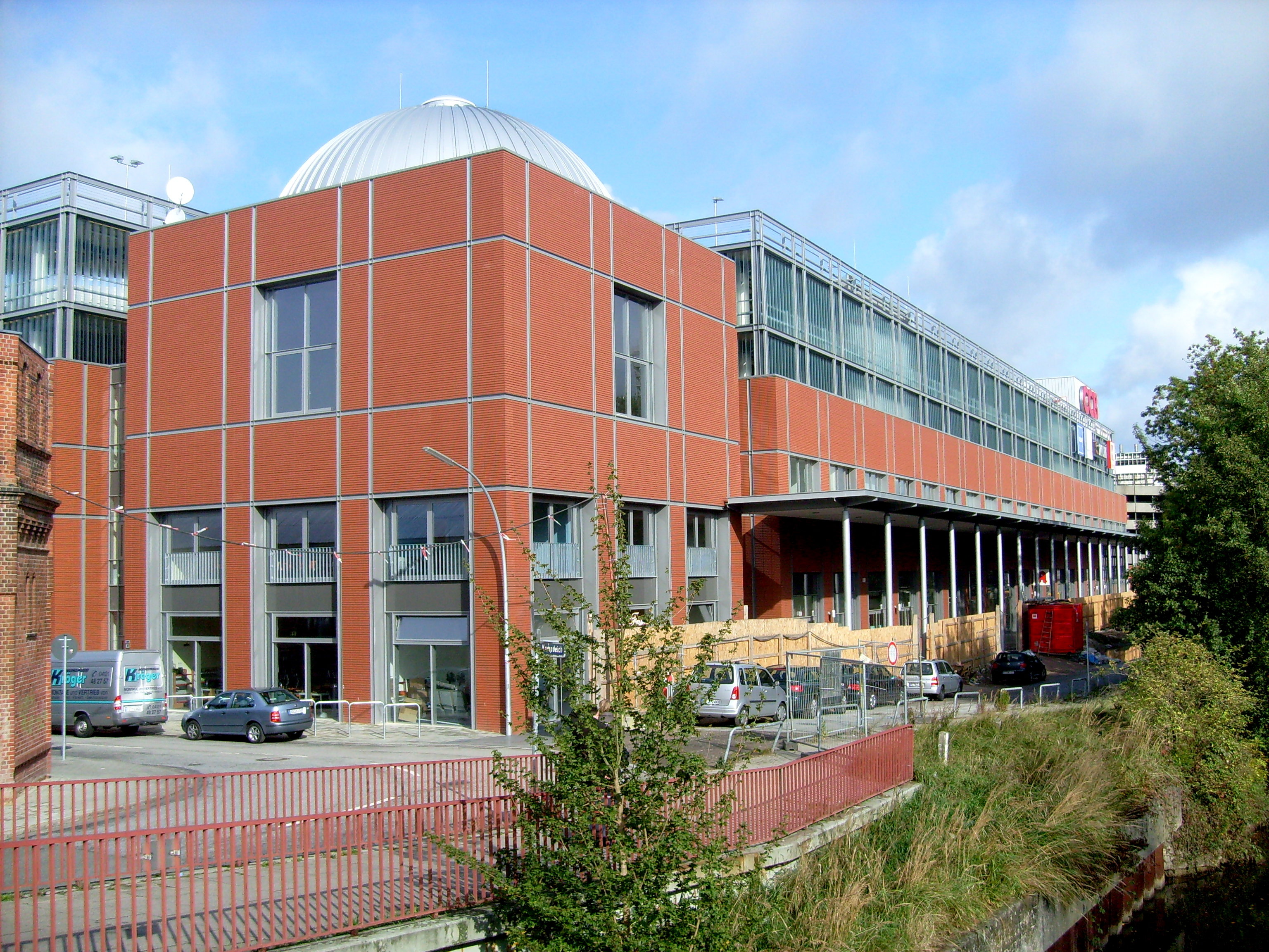 The new Billepromenade, that will expand the cityharbour area of Hamburg-Bergedorf. At the left is the new Kocatepe-mosque of Bergedorf, opened in September 2008.